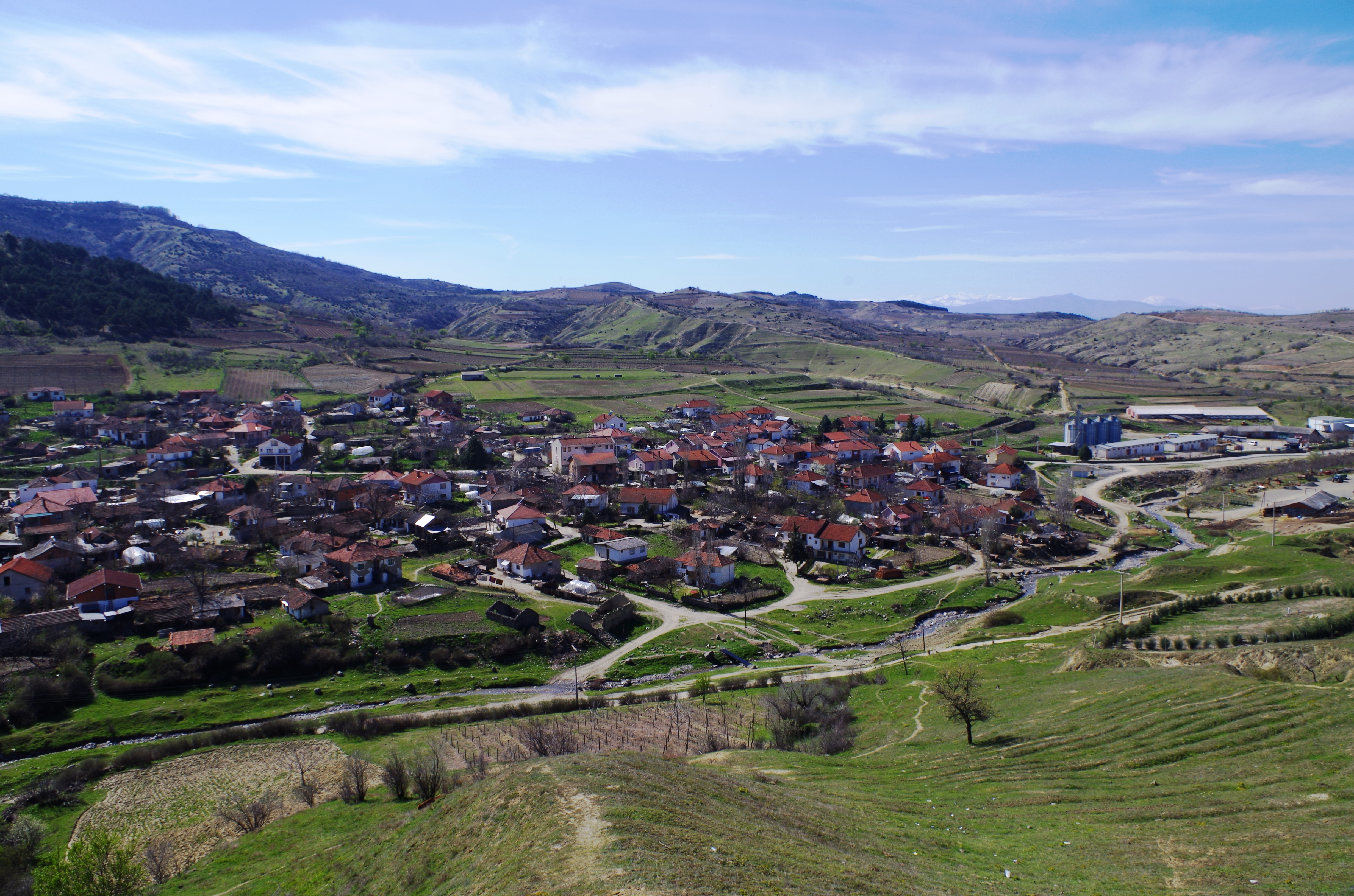 View of the village Dolni Disan